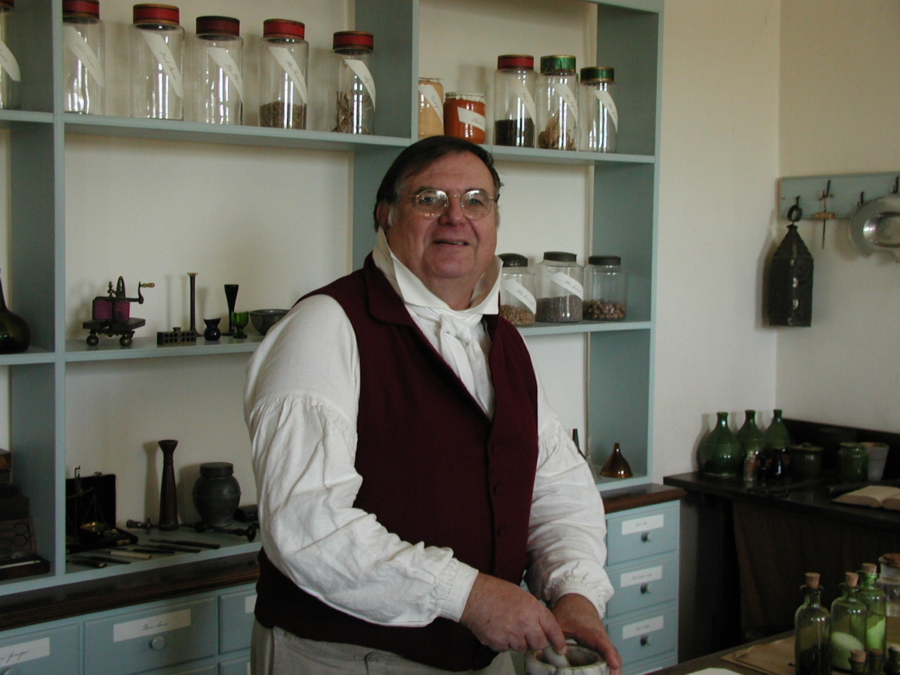 I took this picture in Old Salem.